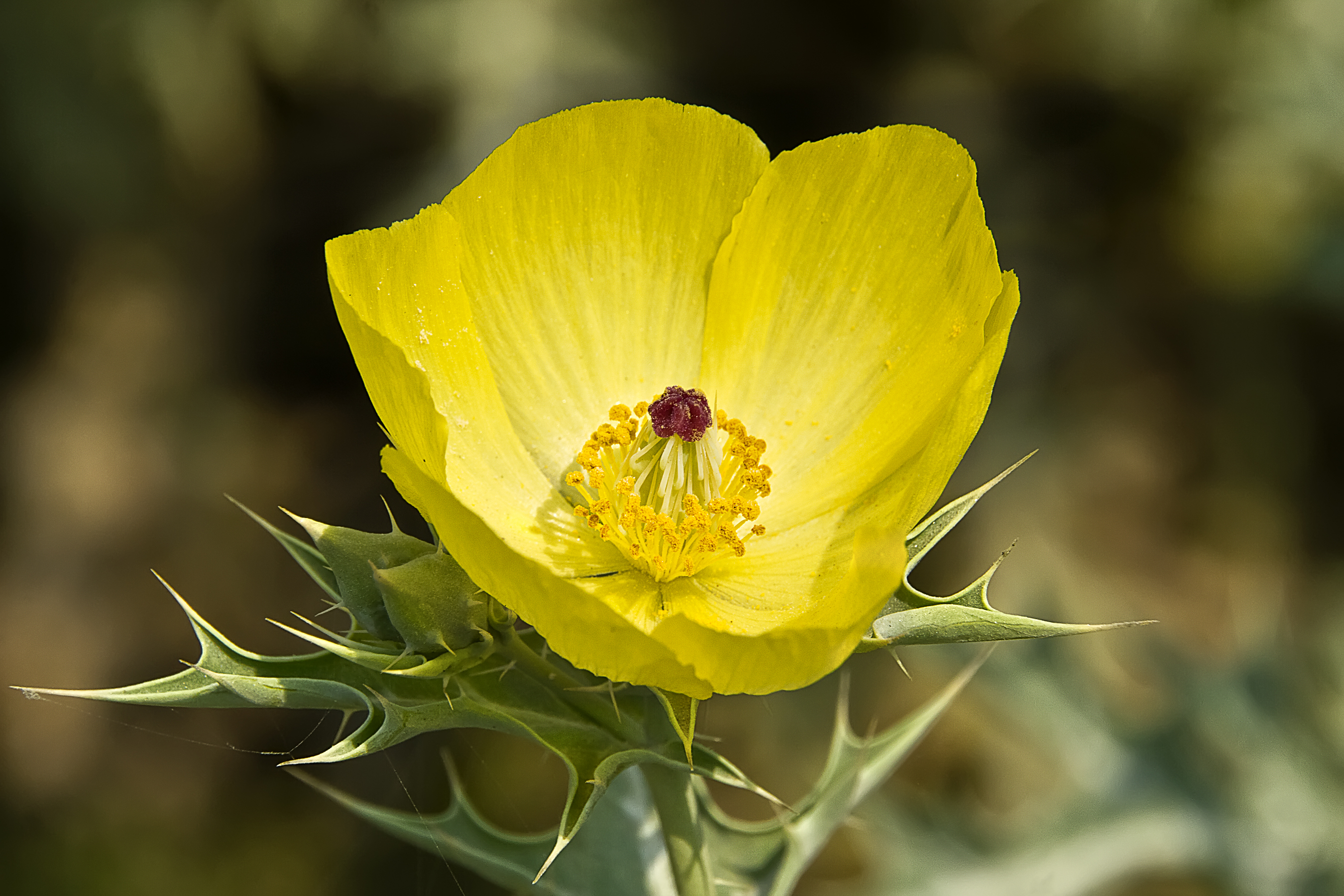 Argemone mexicana (Mexican poppy, Mexican prickly poppy, cardo or cardosanto) is a species of poppy found in Mexico and now widely naturalized in many parts of the world. An extremely hardy pioneer plant, it is tolerant of drought and poor soil, often being the only cover on new road cuttings or verges. It has bright yellow latex, and though poisonous to grazing animals, is rarely eaten, but has been used medicinally by many people including those in its native area, the Natives of the western US and parts of Mexico